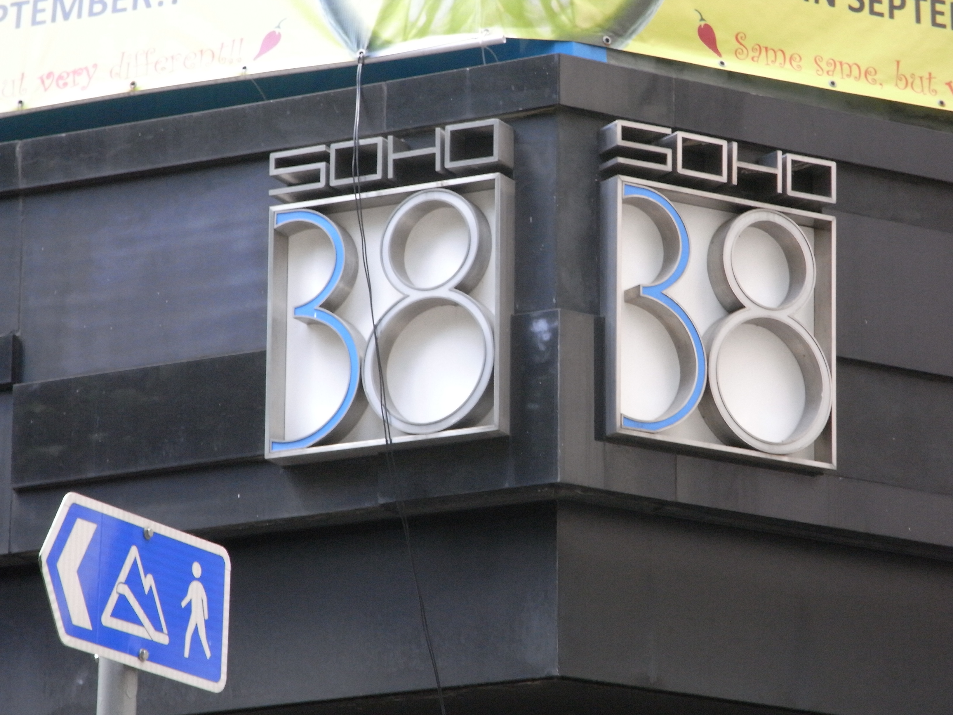 中環半山區zh:摩羅廟街 & 些利街交界 SOHO 38